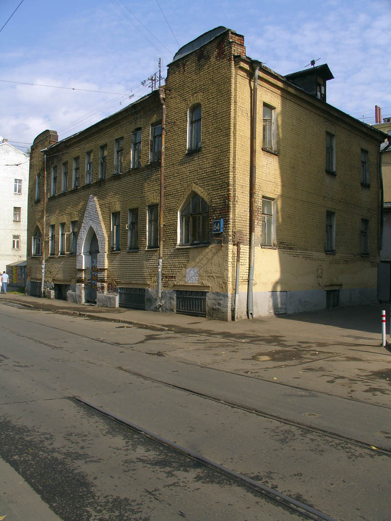 Gilarovskogo Street, Moscow. Demolished in summer of 2009.